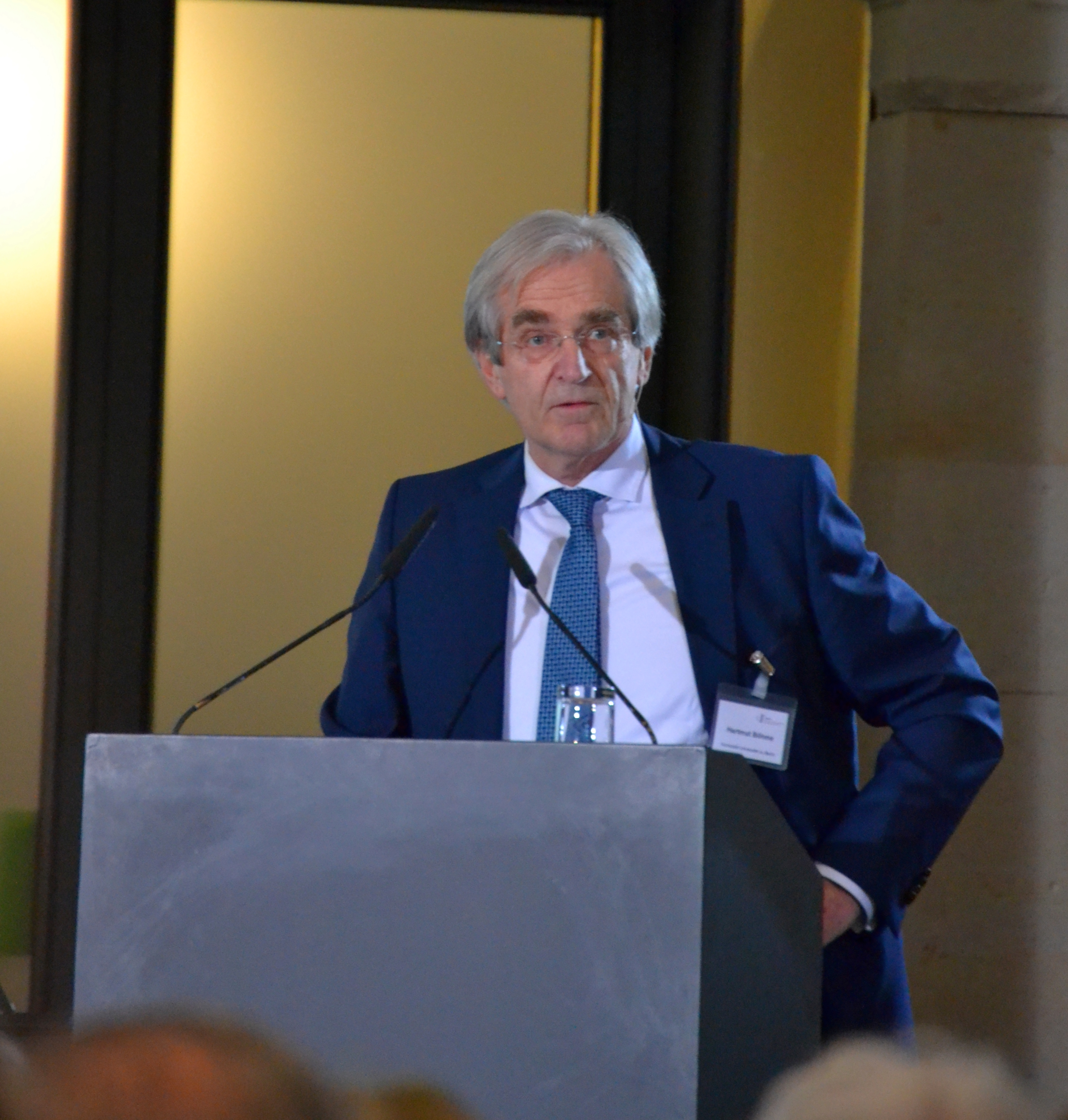 Academies day 2015 at the Berlin-Brandenburg Academy of Science in Berlin; Theme: "Old world today: Perspectives and threats". Image: Professor of Cultural studies Hartmut Böhme.